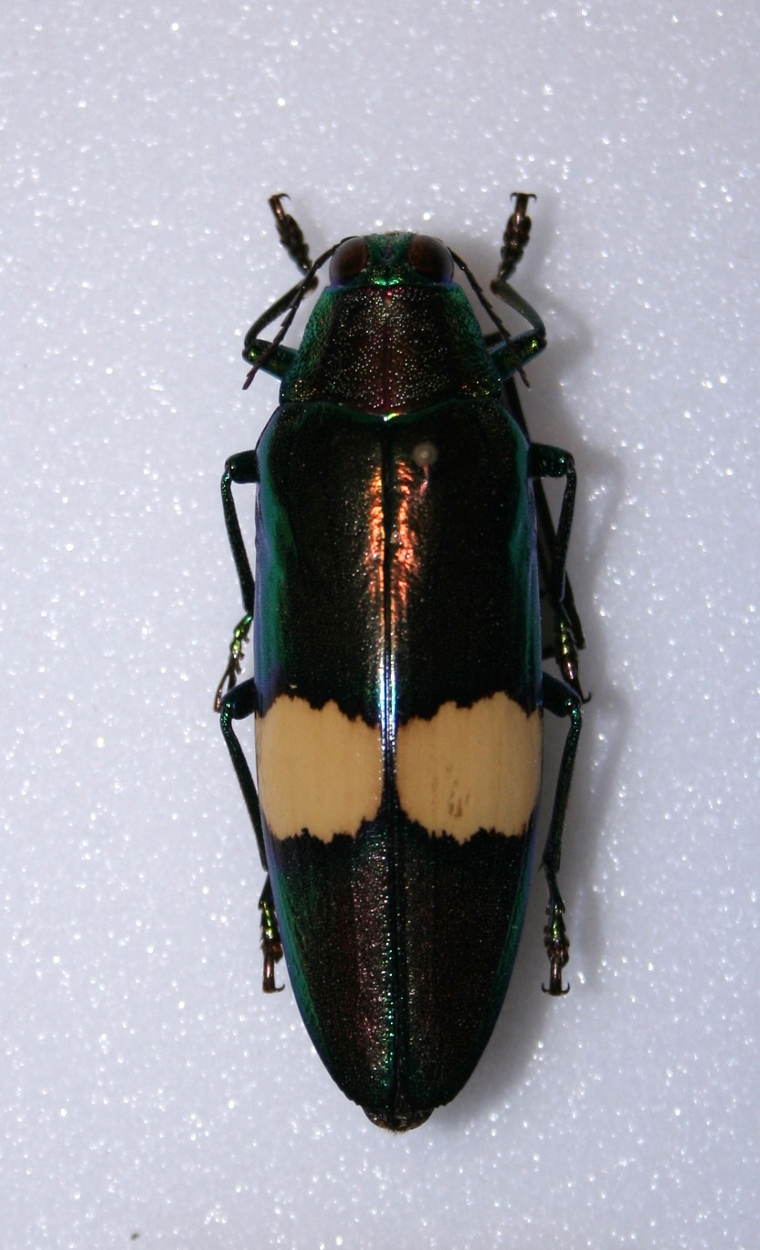 Chrysochroa edwardsi